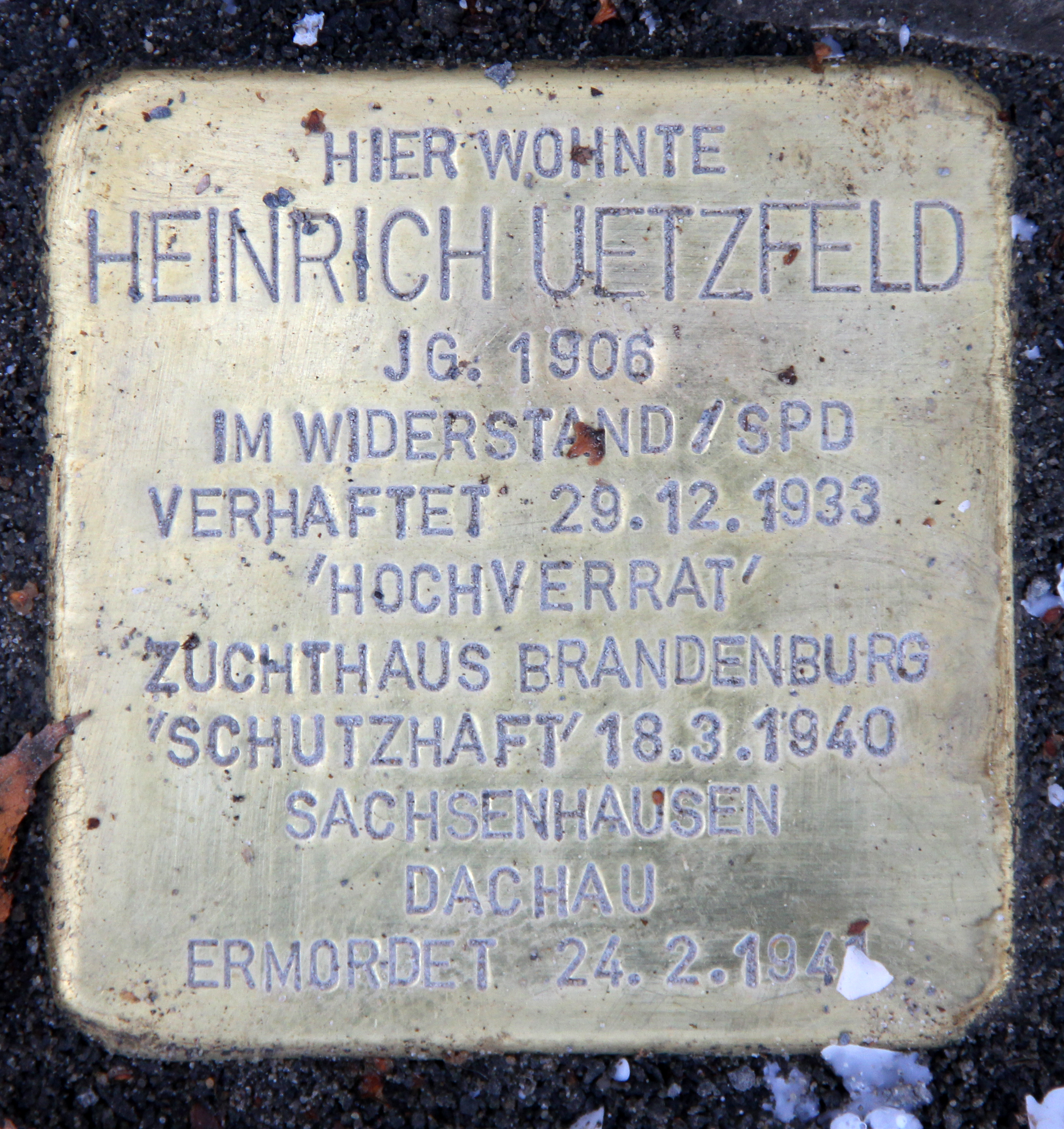 "Stolperstein" (stumbling block), Heinrich Uetzfeld, Parchimer Allee 7, Berlin-Britz, Germany gestohlen vom 5. zum 6. November 2017